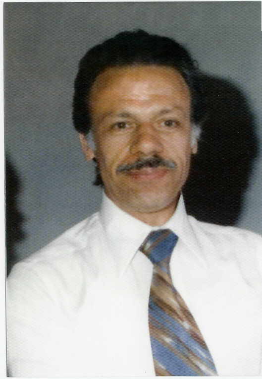 Leo Morandi